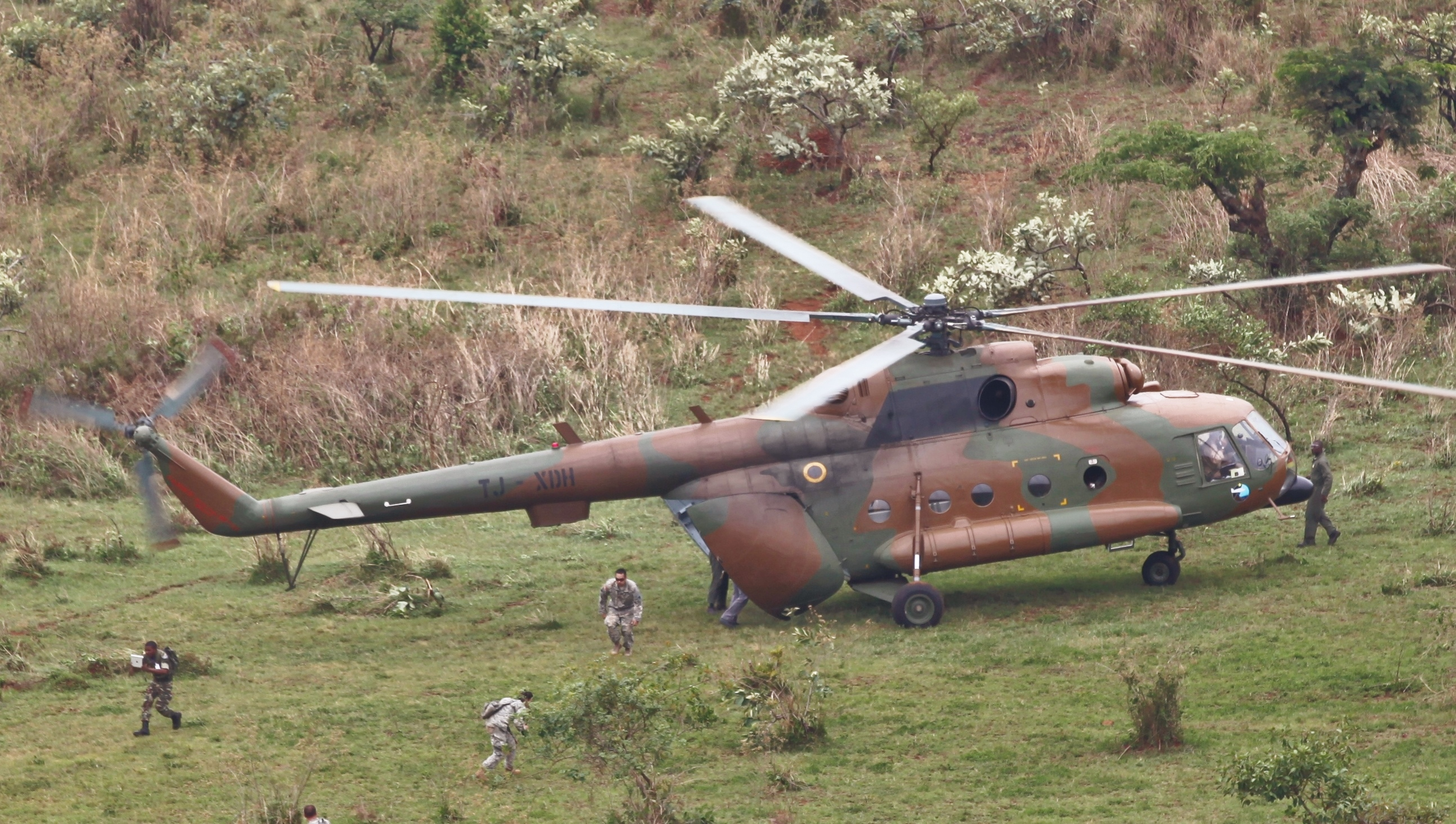 Soldiers with 2nd Battalion, 503rd Infantry Regiment, 173rd Infantry Brigade Combat Team (Airborne), move the casualty to the helicopter in the simulated patrol with Cameroon Army during Central Accord 2014 (CA 14), Cameroon, Africa, Mar. 18, 2014. CA 14 is a combined joint training exercise in order to sustain tactical proficiency, improve multi-echelon operations, and develop multi-national logistical capabilities in an austere forward environment. (U.S. Army photo by Spc. Coty Kuhn/ Released)